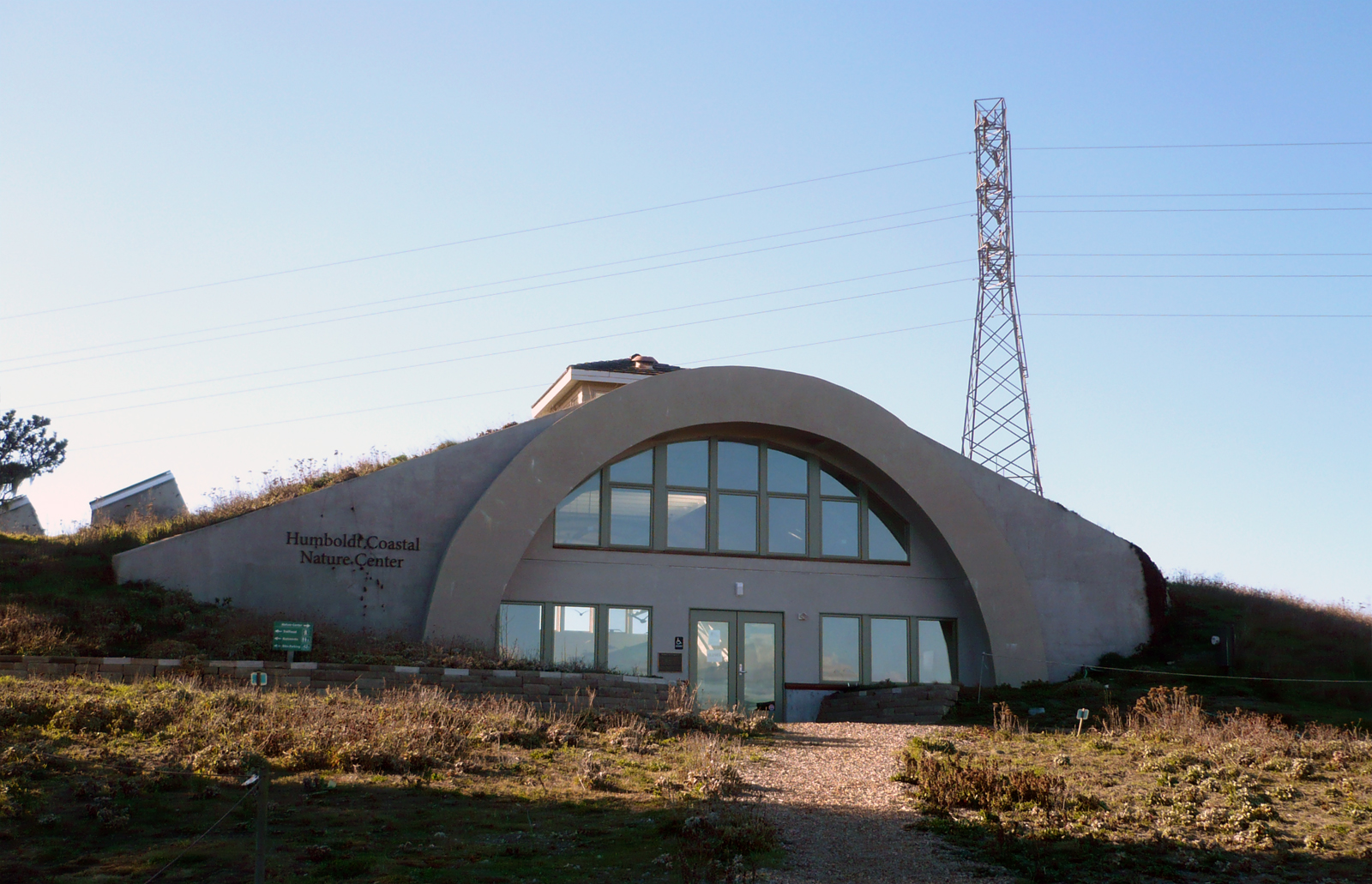 Humboldt Coastal Nature Center of Friends of the Dunes is located at 220 Stamps Lane, Manila California. The Stamps Dune House was originally built in 1985 as the dream retirement home of a couple who acted as their own general contractor. In 2007, their heirs sold a large part of their property and the house to Arcata-based Friends of the Dunes to use as a nature center on the dunes.